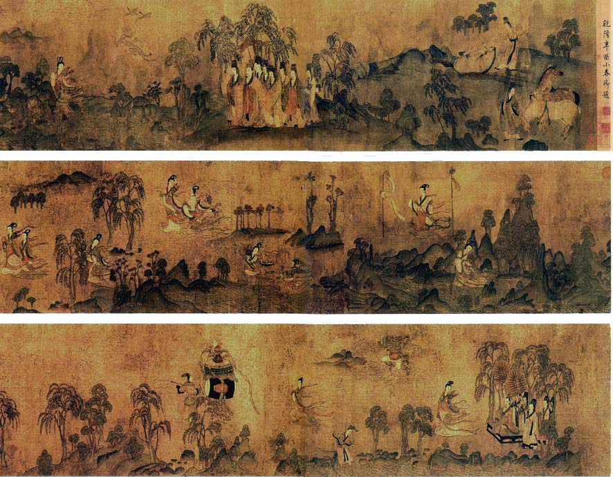 "Nymph of the Luo River", 13th century Song Dynasty copy of original by Gu Kaizhi; ink and colours on silk, 21,7 x 572,8cm. Palace Museum at Beijing, China.